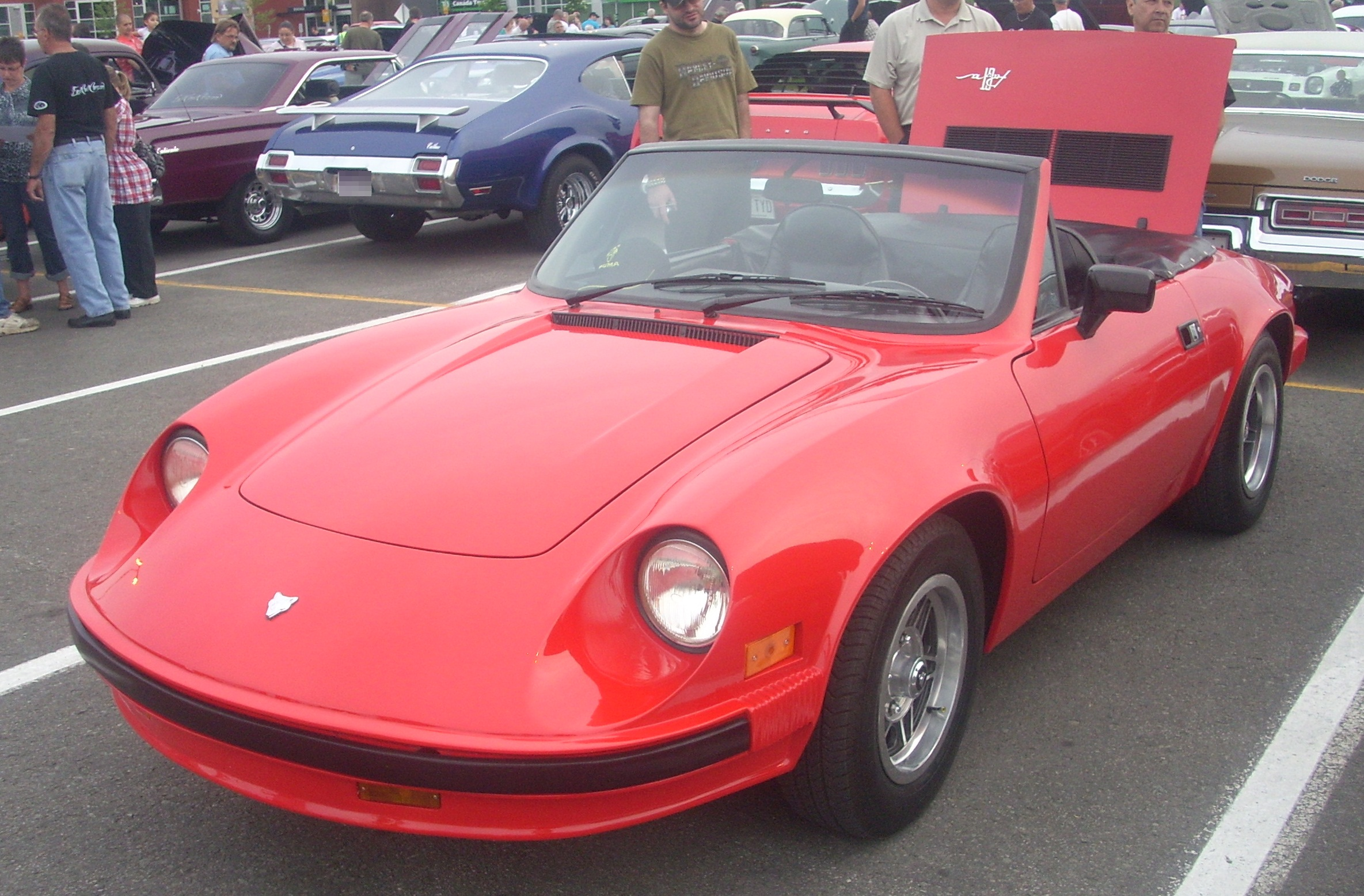 Puma GTC (Spyder) photographed in Laval, Quebec, Canada at Centropolis Laval.